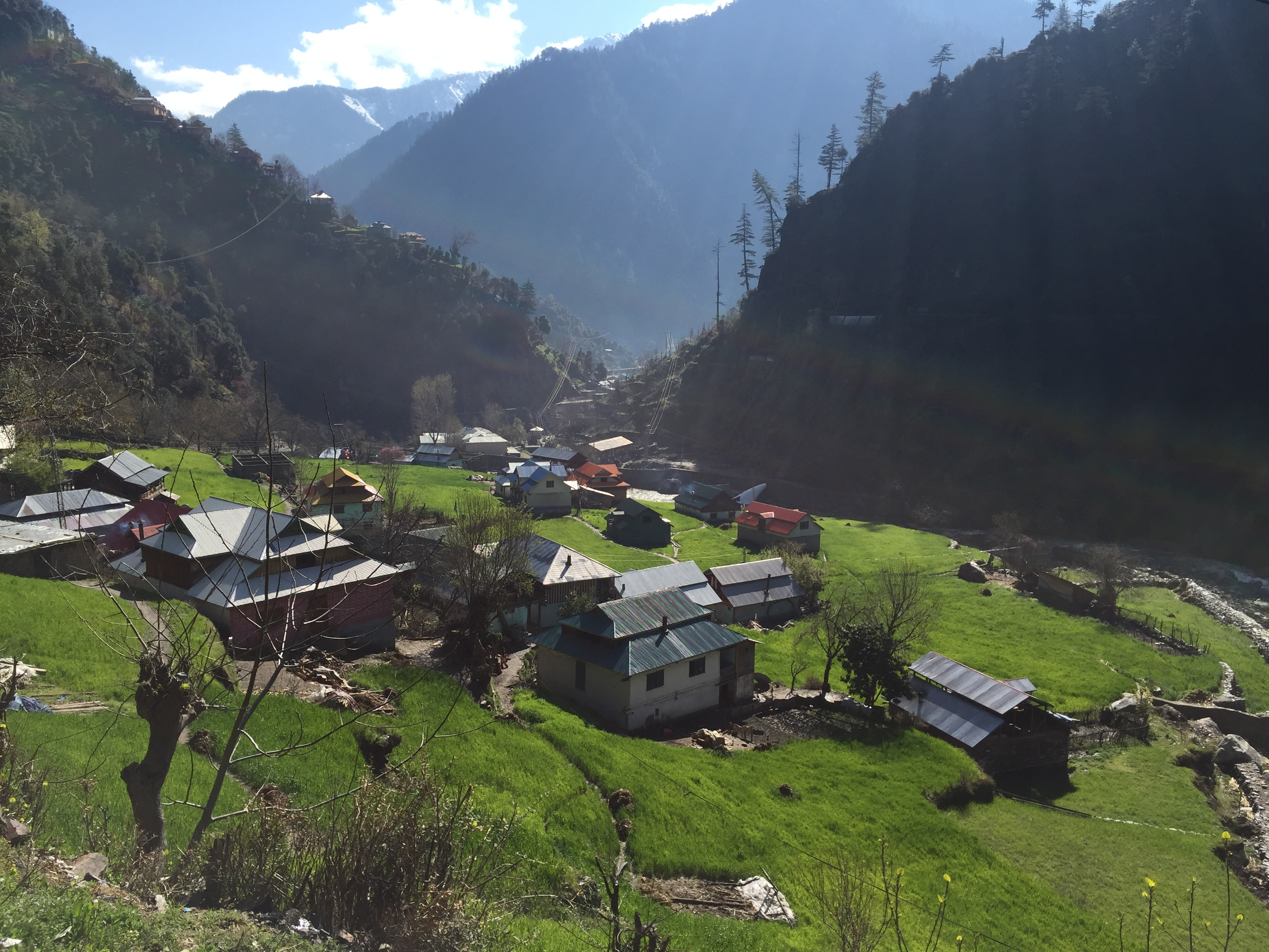 this scene is taken while going to kundal shahi from kutton resorts in azad kahsmir